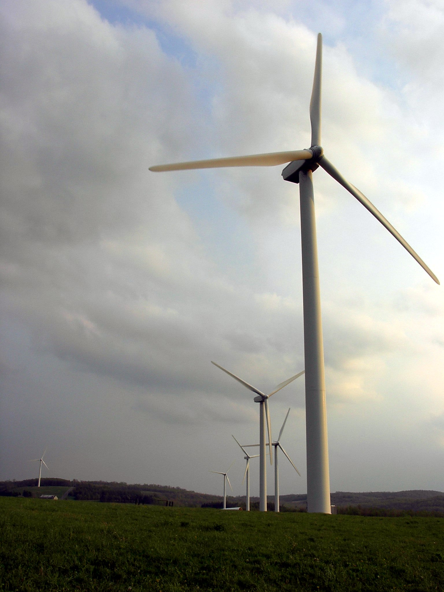 All wind turbines at the Somerset Wind Farm as seen from the north end of the site.